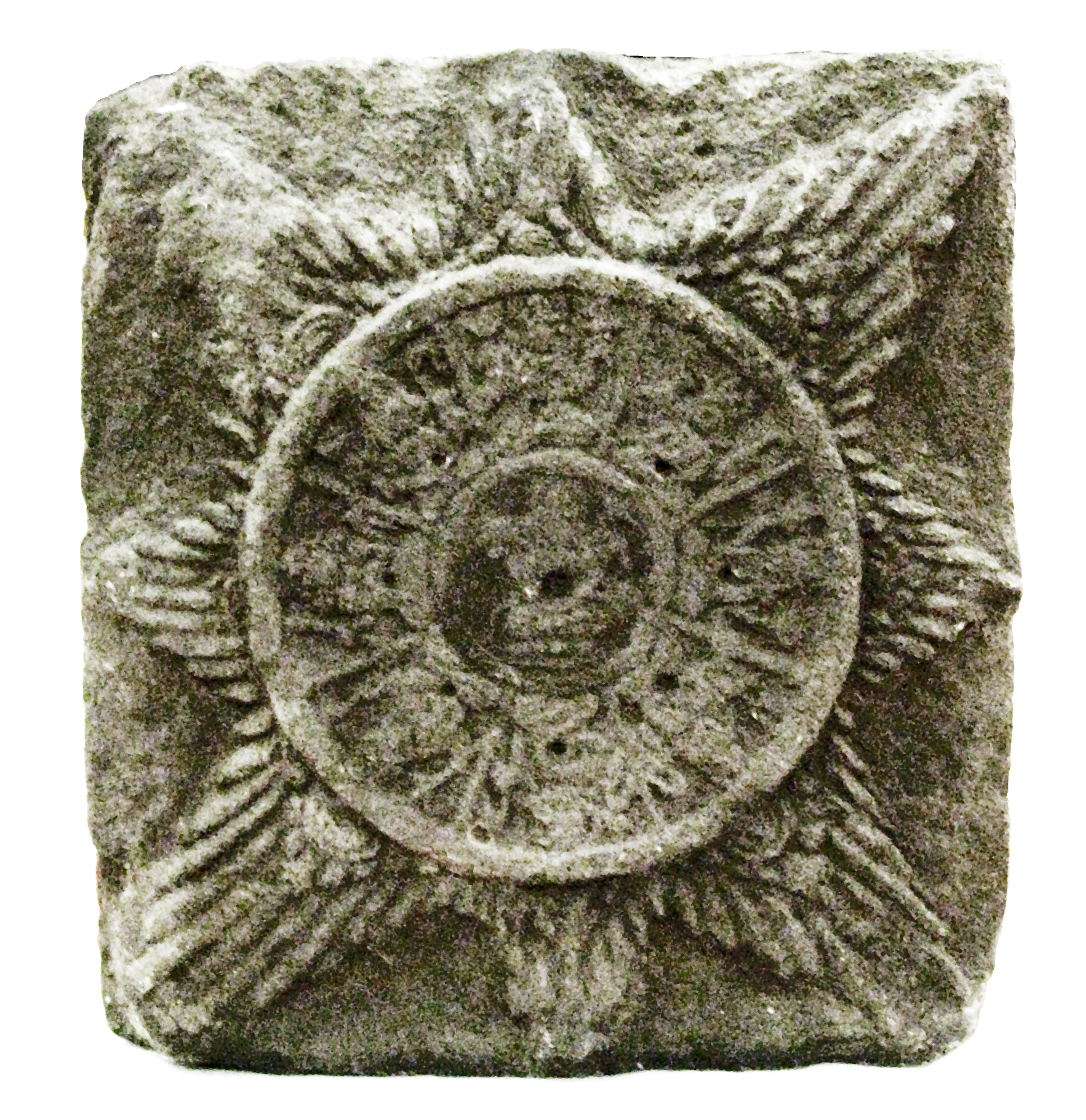 Surya Majapahit, the sun emblem surrounded by Hindu gods commonly found in the ruin of Majapahit buildings. Trowulan, 14th century.